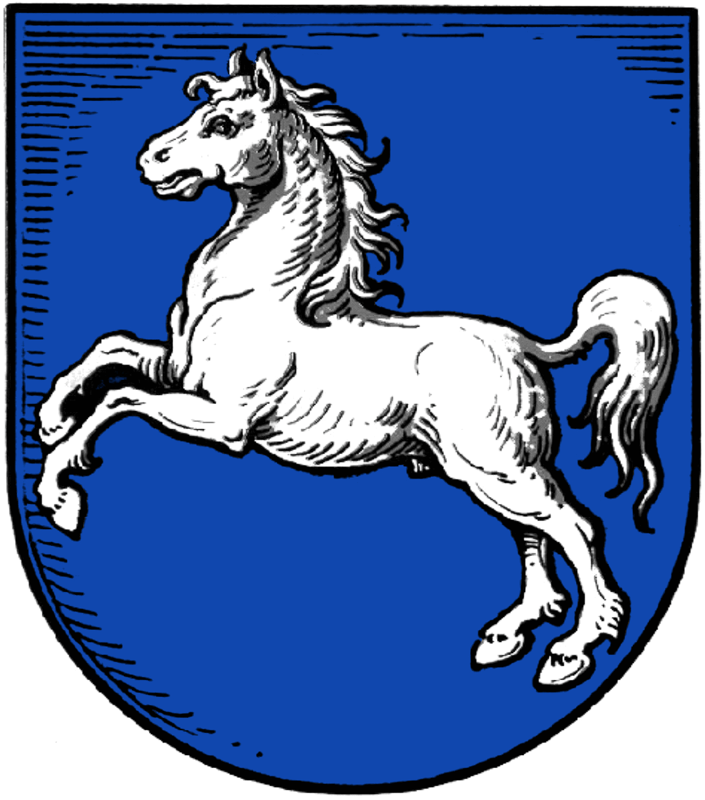 Coat of Arms of Hardegsen